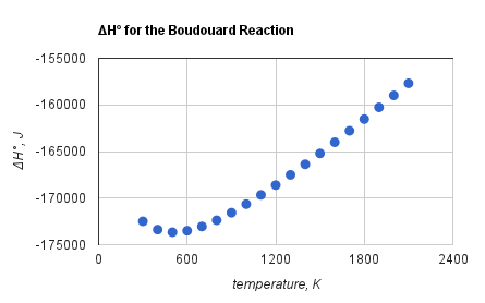 A plot of the values of the standard enthalpy of reaction of the Boudouard reaction at various temperatures.